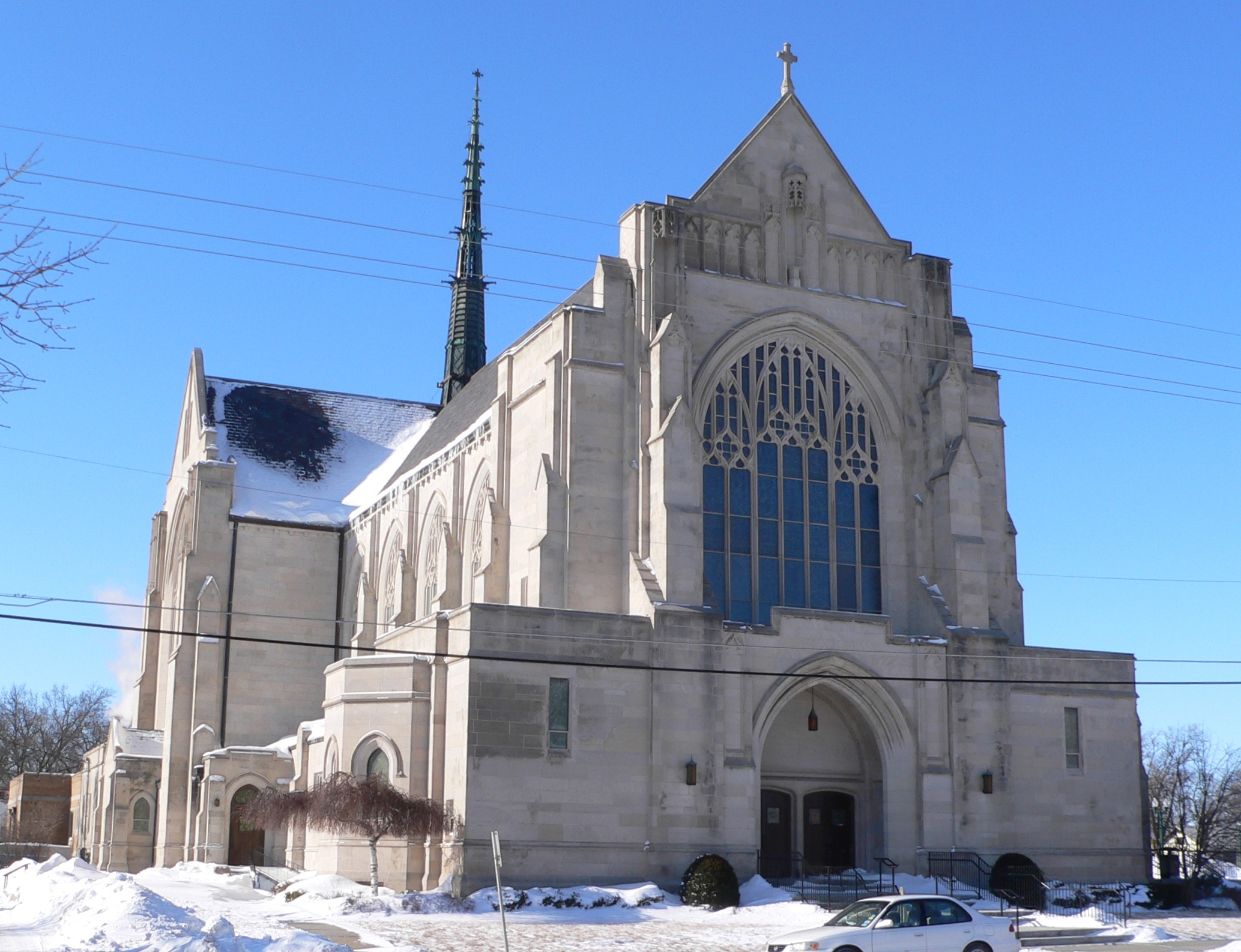 Cathedral of the Nativity of the Blessed Virgin Mary in Grand Island, Nebraska; seen from the southeast. The cathedral was designed in Late Gothic Revival style by architects Brinkman & Hagan; the cornerstone was laid in 1926. The building is listed in the National Register of Historic Places.